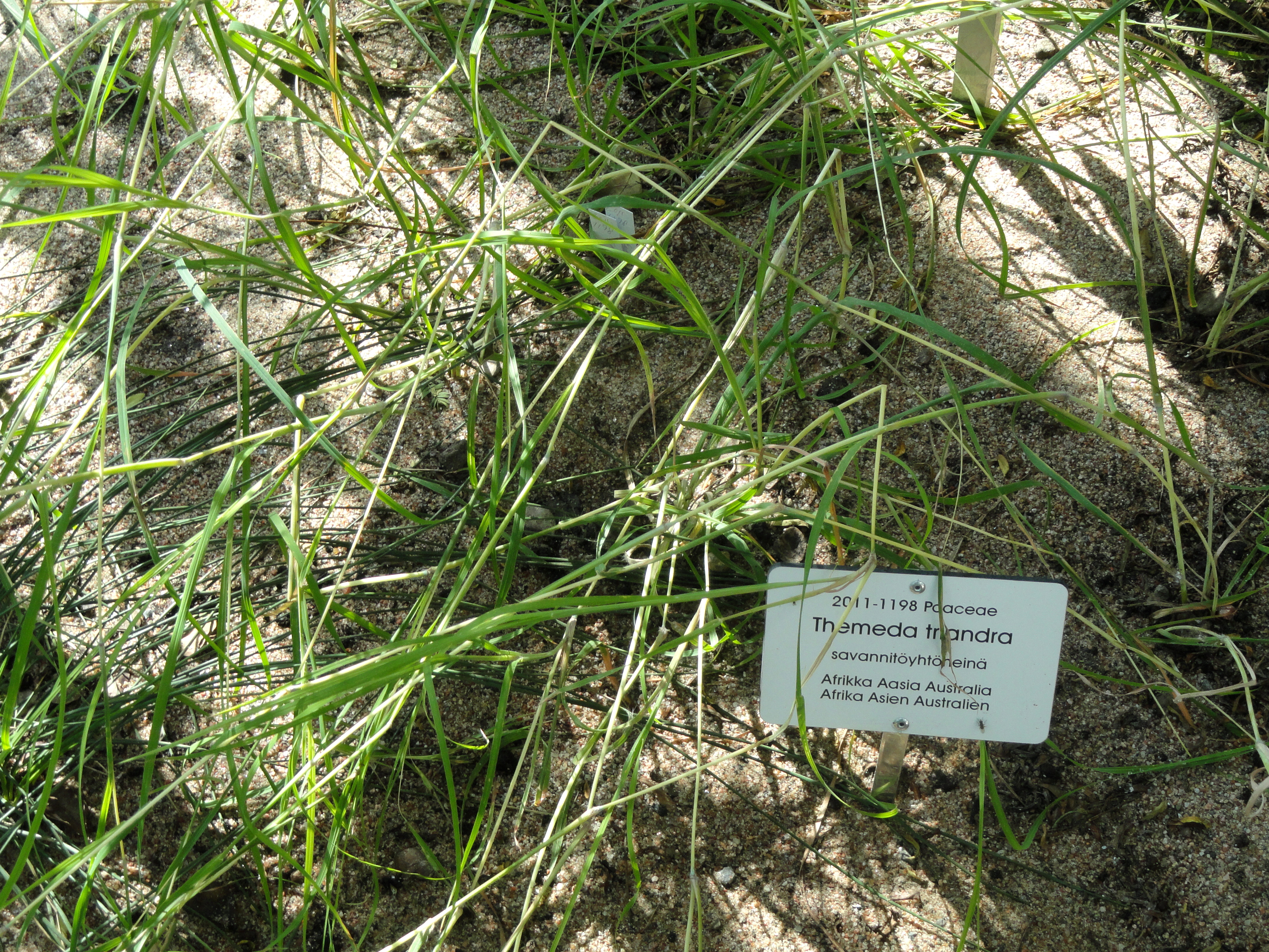 Botanical specimen. The University of Helsinki Botanical Garden at Kaisaniemi